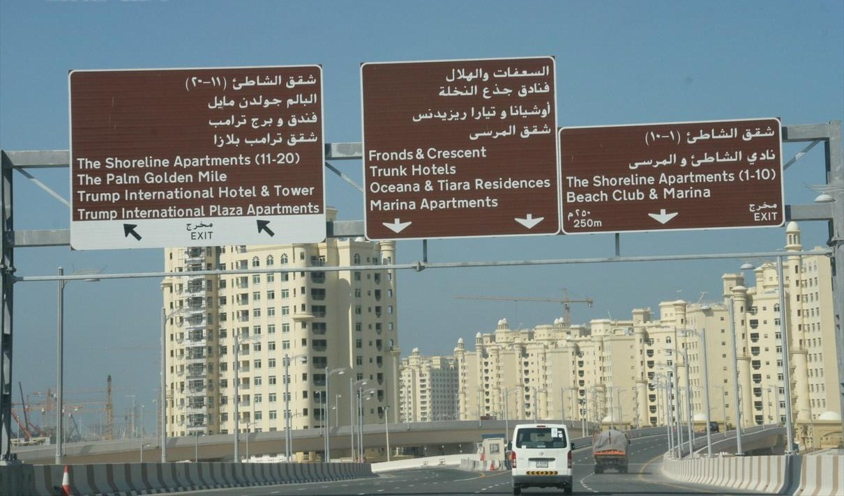 This is a photo showing the road signs at the entrance to the Palm Jumeirah in Dubai, United Arab Emirates on 28 January 2007. The buildings seen further down the road are the Shoreline Apartments.